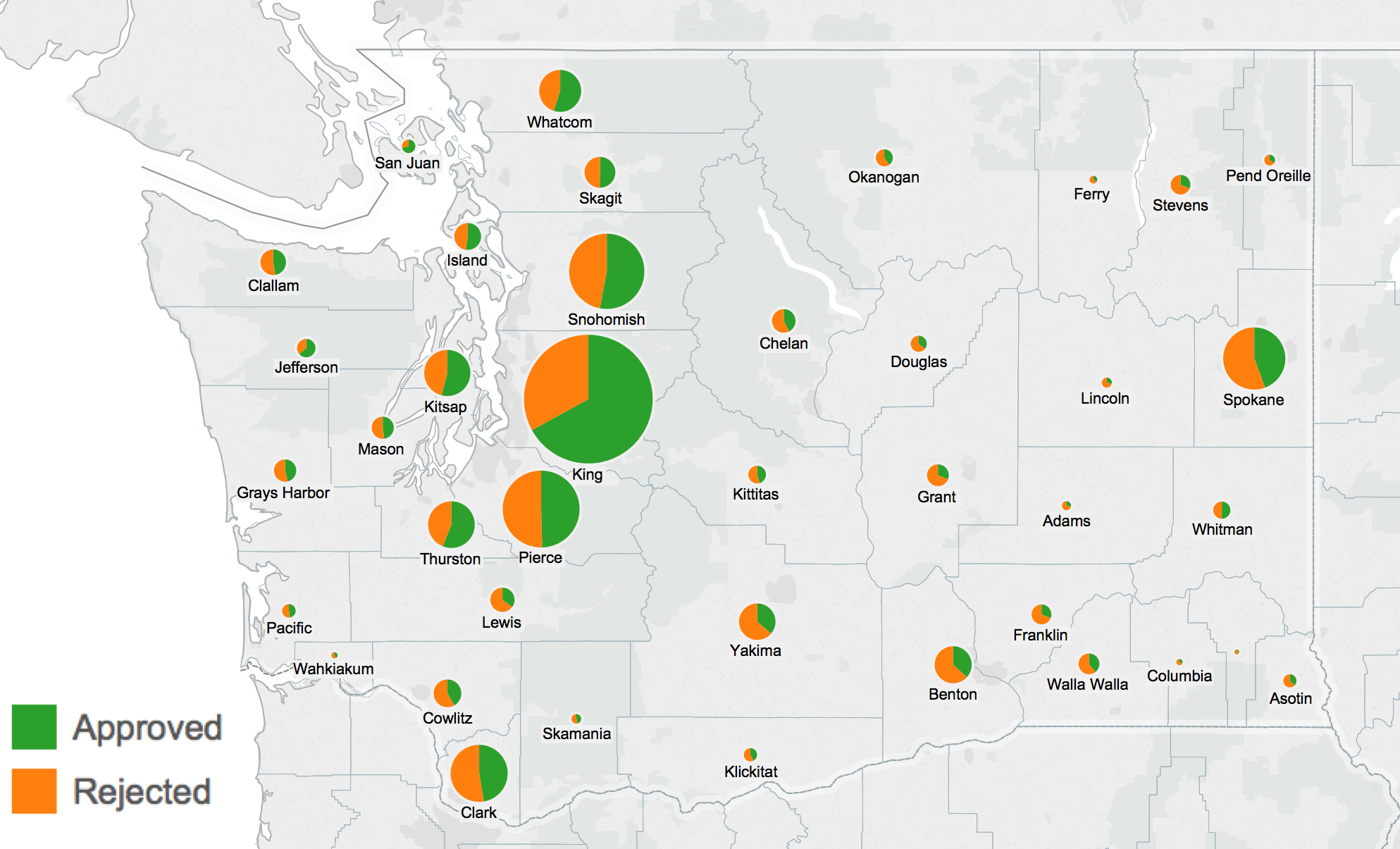 Washington Referendum 74 election results, showing Approved vs Rejected with size showing total votes by county.